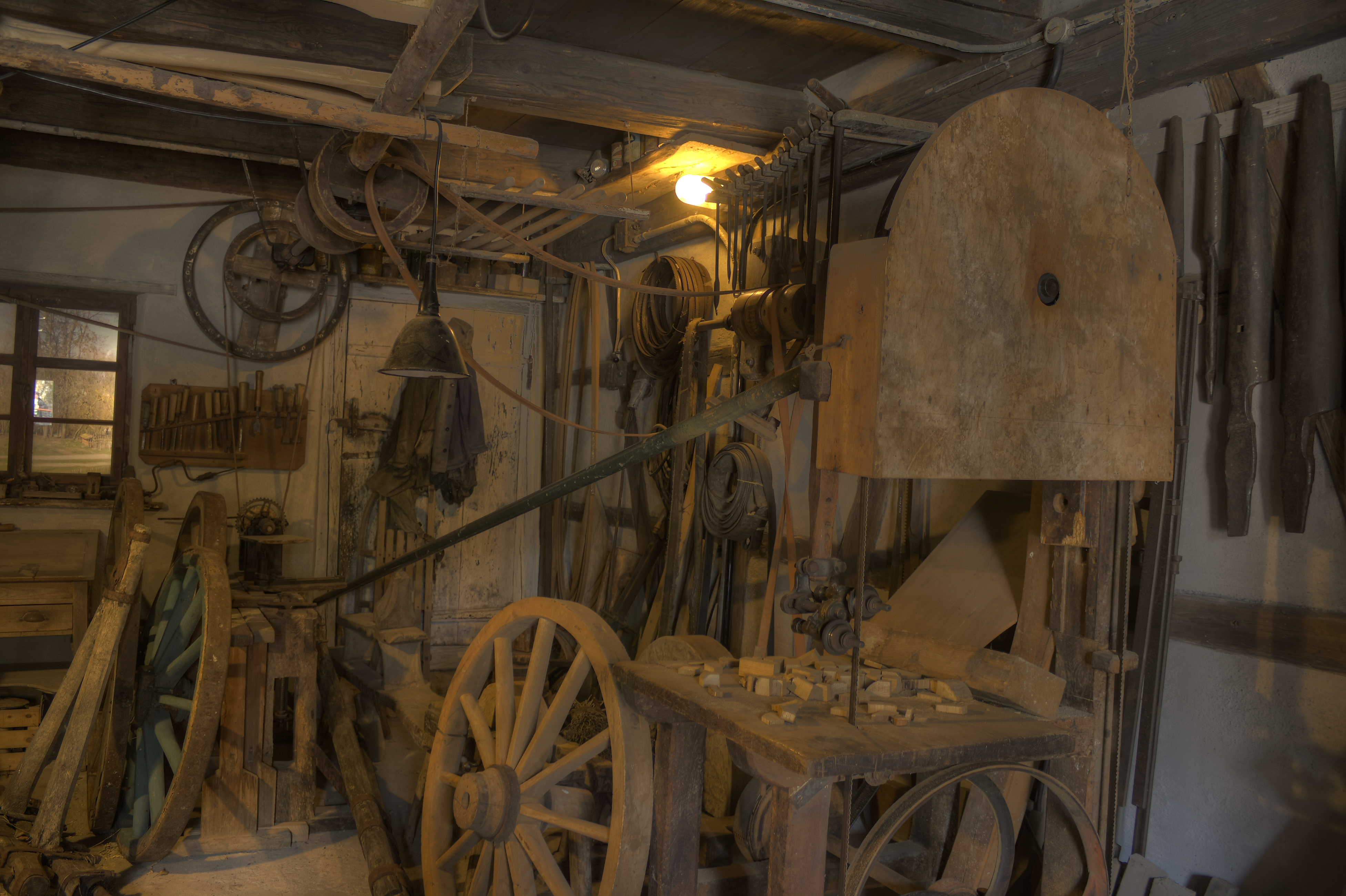 wagon-maker workshop in the farmhouse museum Wolfegg